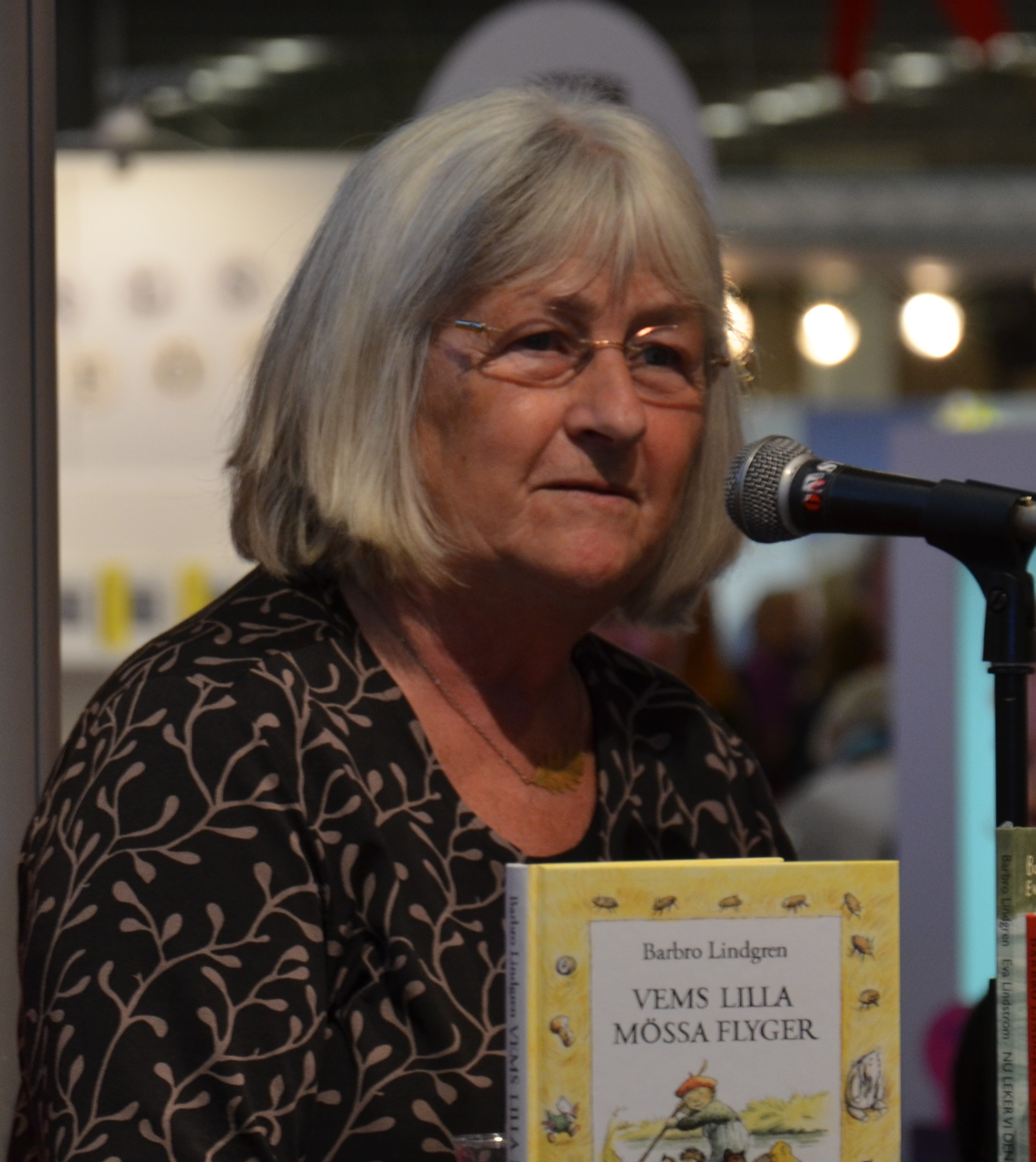 Barbro Lindgren på Bokmässan i Göteborg 2014